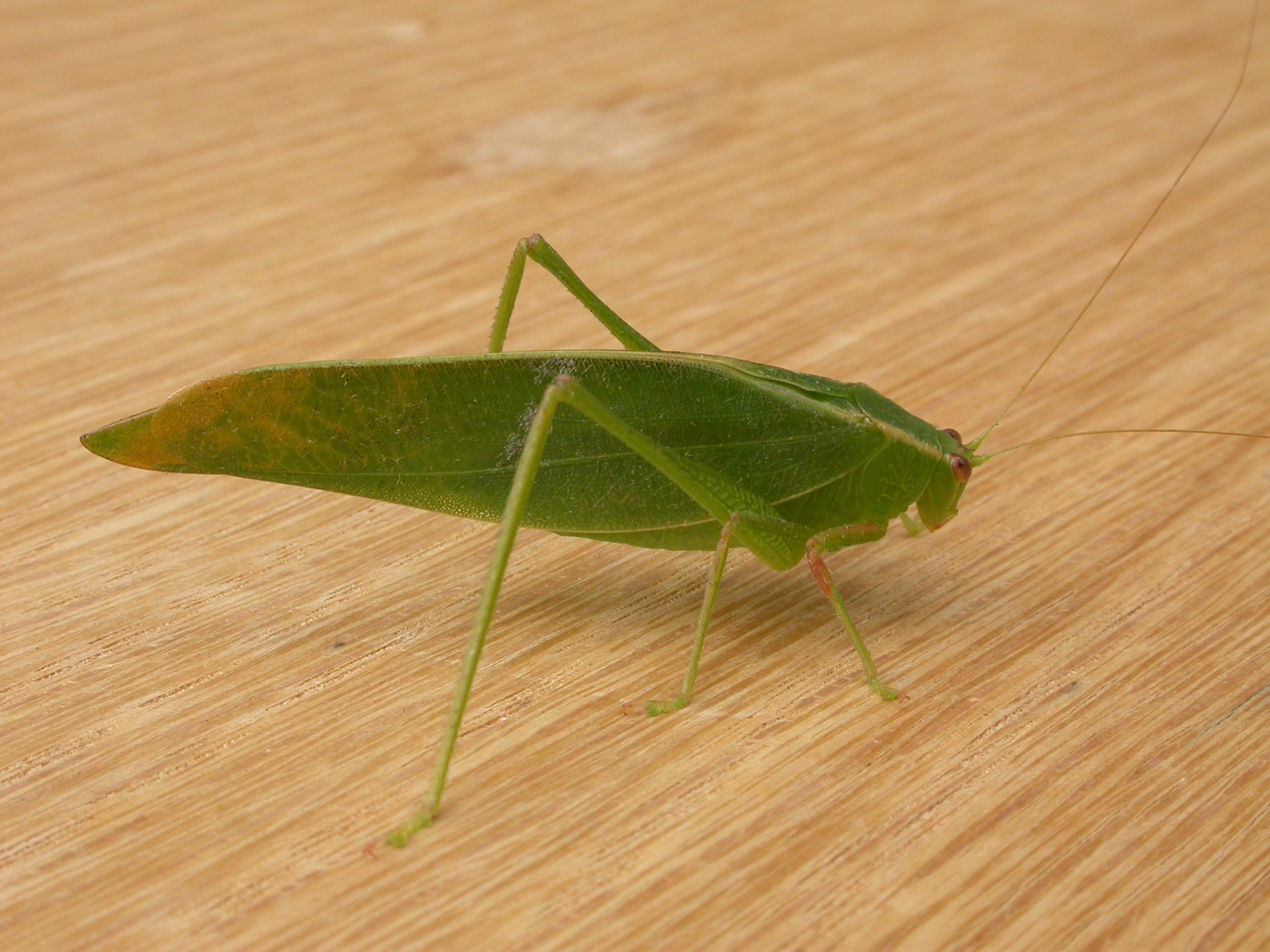 Caedicia sp., to MV light, Aranda, ACT, 28/29 December 2008